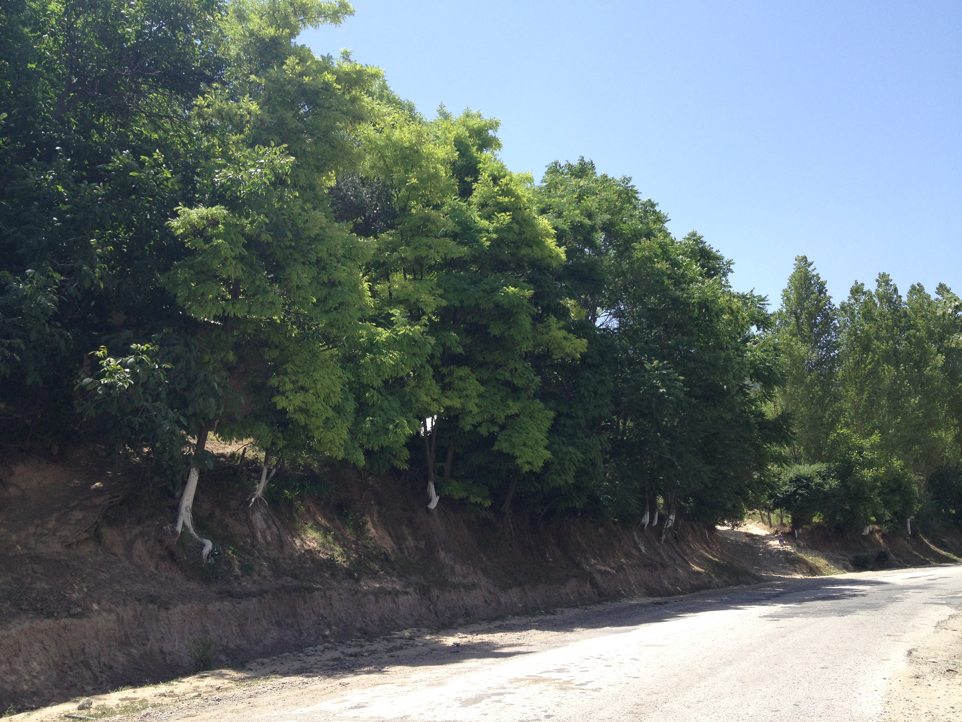 Forest in the valley of Aman-Kutan Say and M-39 automobile road